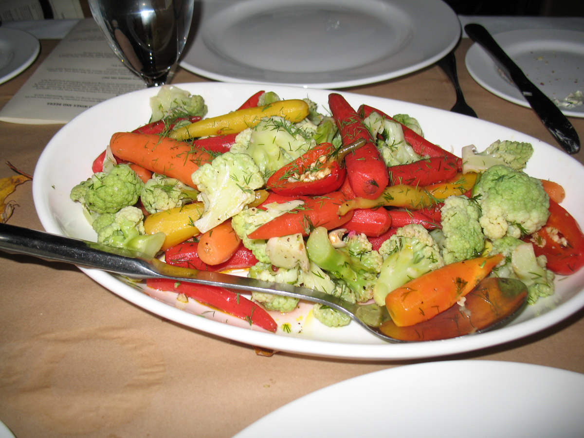 "Dressed with fresh dill and cold pressed soy oil from Pristine Gourmet." I sampled the peppers, which packed a little heat. Gladstone Hotel, October 22, 2008